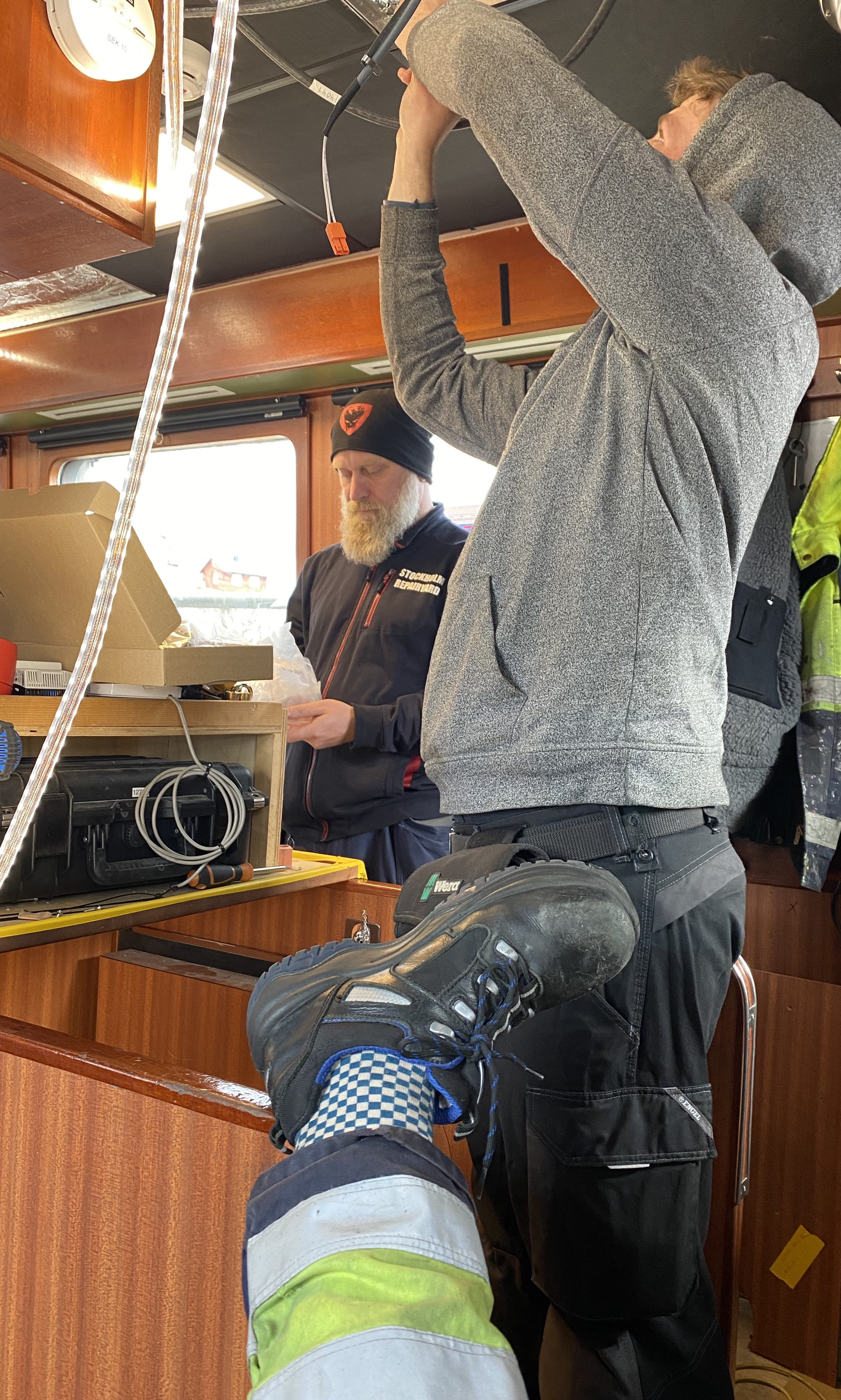 Brovar